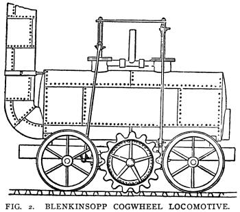 Blenkinsopp cogwheel locomotive